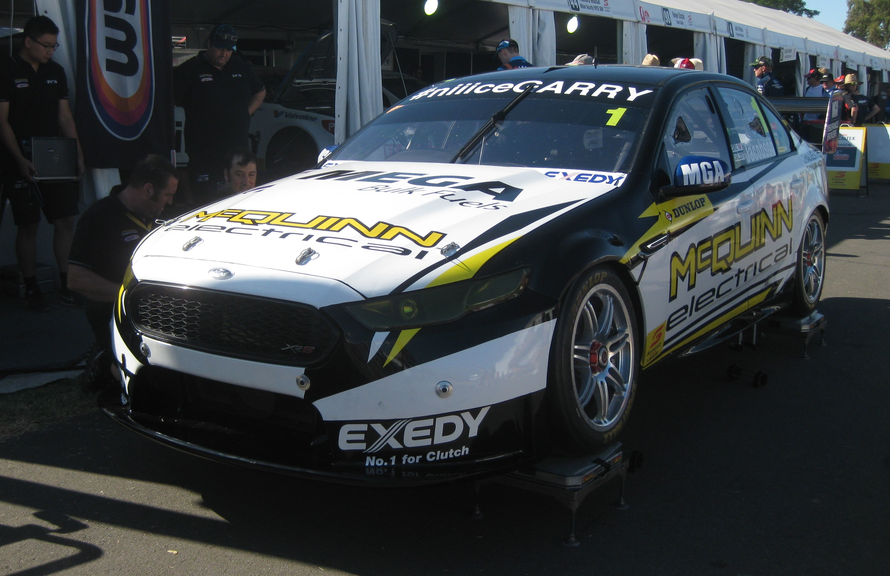 The Ford Falcon FG X of Garry Jacobson at the Adelaide Parklands Circuit for Round 1 of the 2017 Dunlop Super2 Series